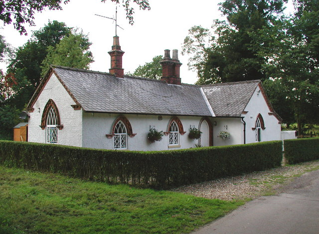 East Lodge, Wassand Hall, Wassand, East Riding of Yorkshire, England.One of two gatekeeper's lodges to Wassand Hall, a regency house southeast of Seaton which was built in 1815 by Thomas Cundy the Elder as a family home for the Strickland-Constables. Victoria County History link has the East Lodge being built in 1830, although according to the tenants there is a date stone inside saying 1846.